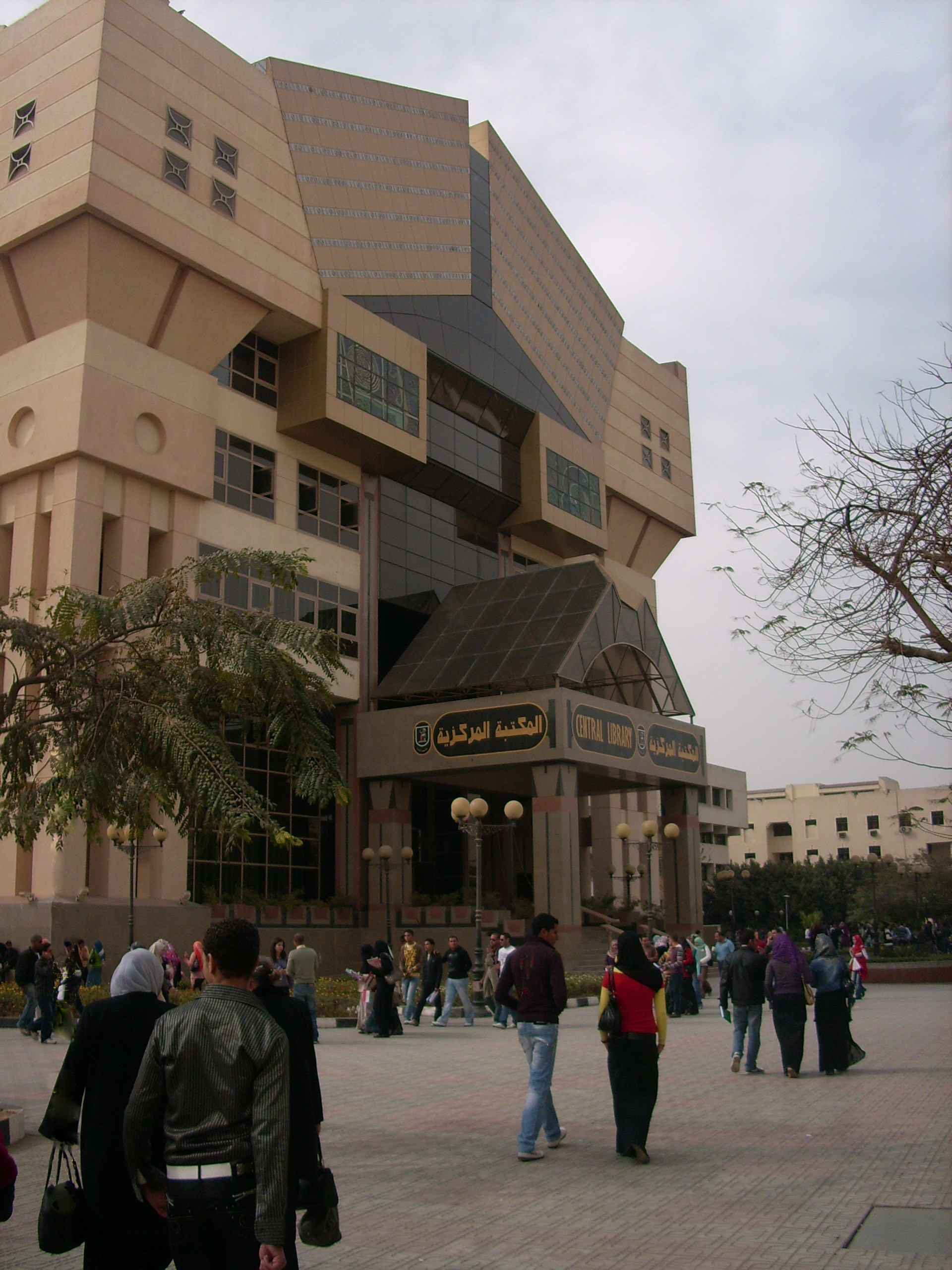 Cairo University Central Library